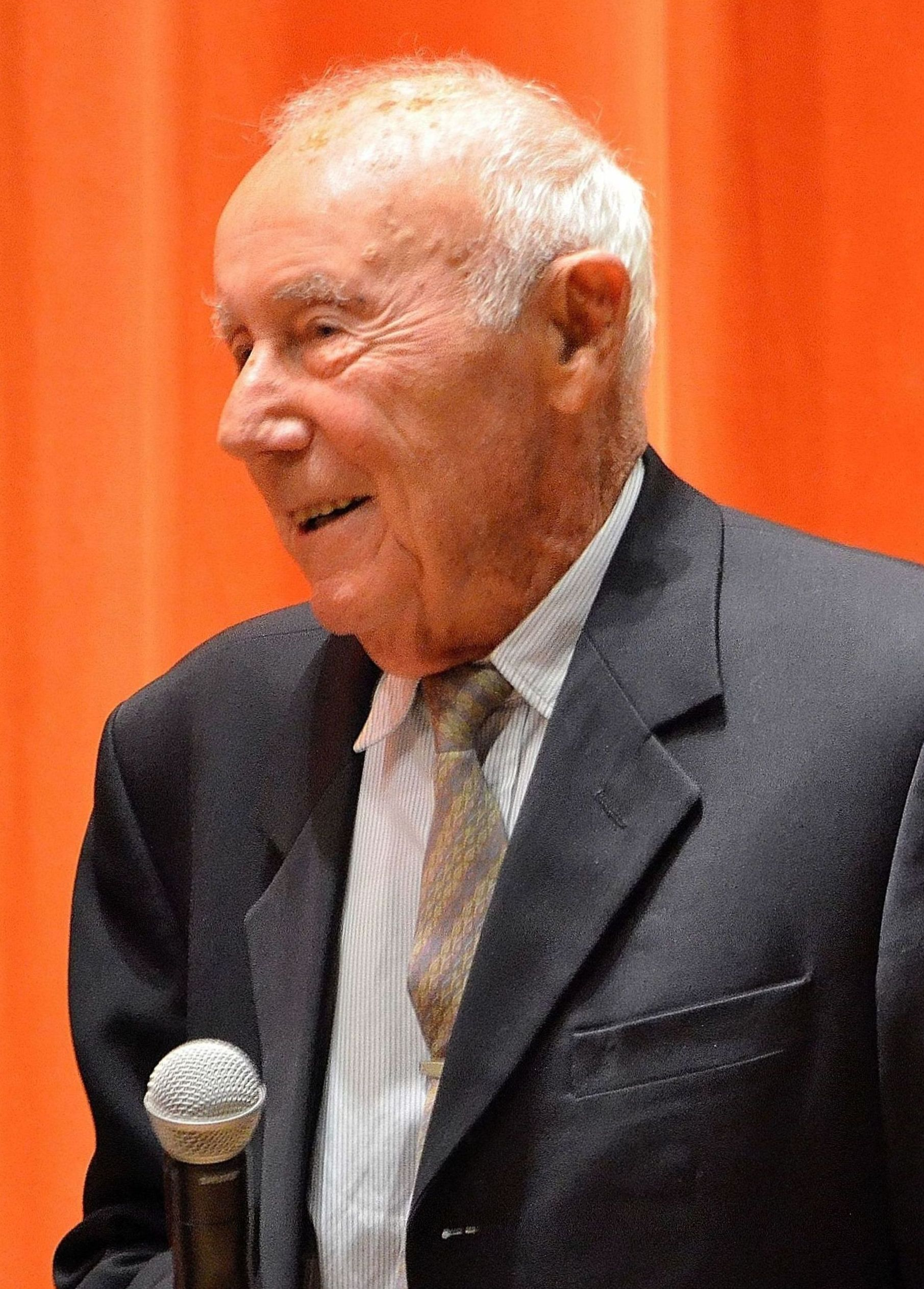 Simcha Rotem and Agnieszka Arnold